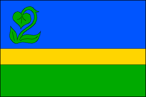 Municipal flag of Heřmanův Městec town, Chrudim District, Czech Republic.